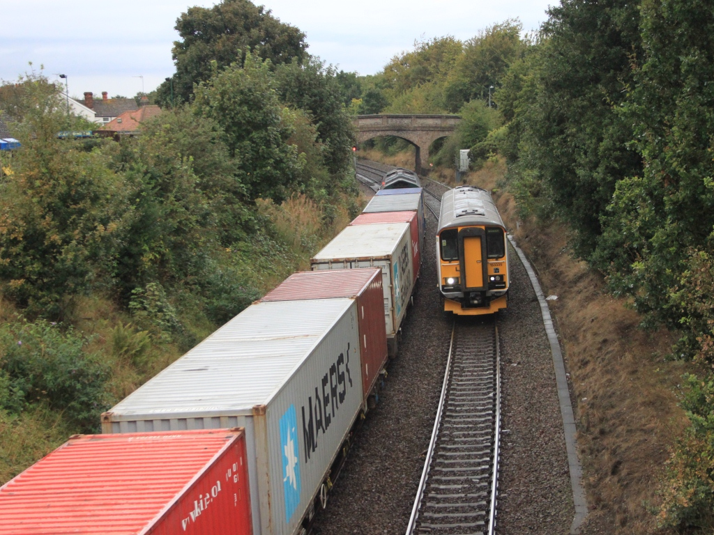 A Freightliner train from Felixstowe (hauled by 66538) waits in the loop at Derby Road for 153335 which is working the Greater Anglia passenger service from Ipswich.